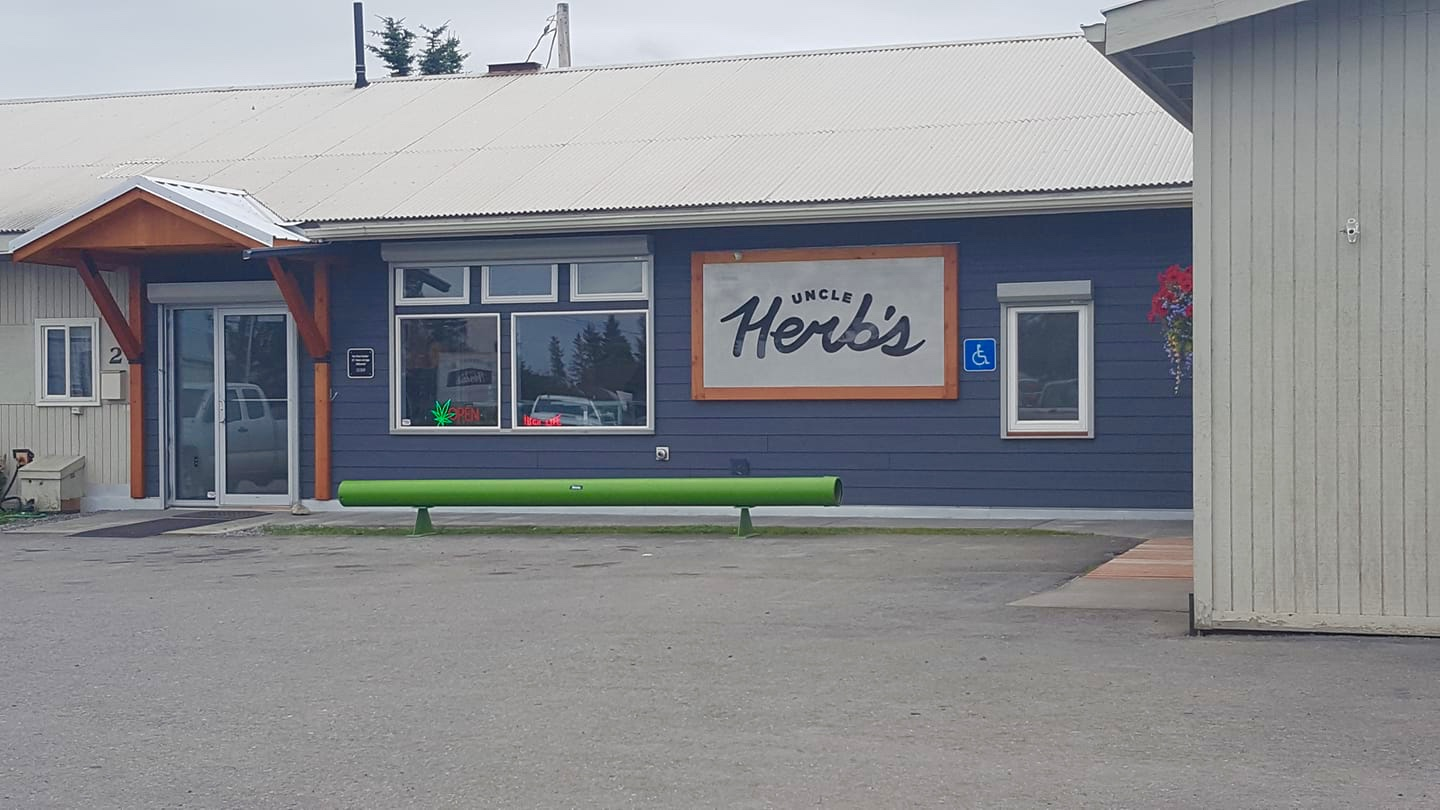 Uncle Herb’s marijuana retail store, Homer, Alaska